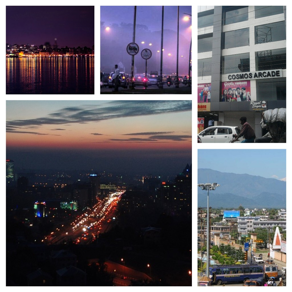 City view of the city of Jalpaiguri